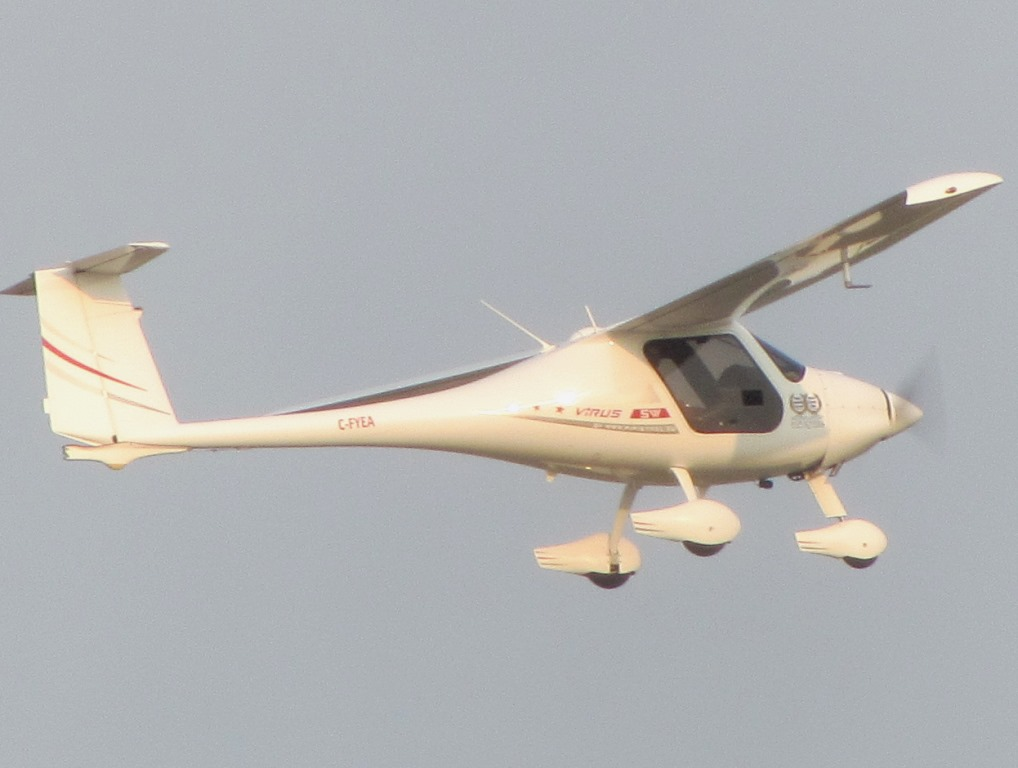 Pipistrel Virus SW